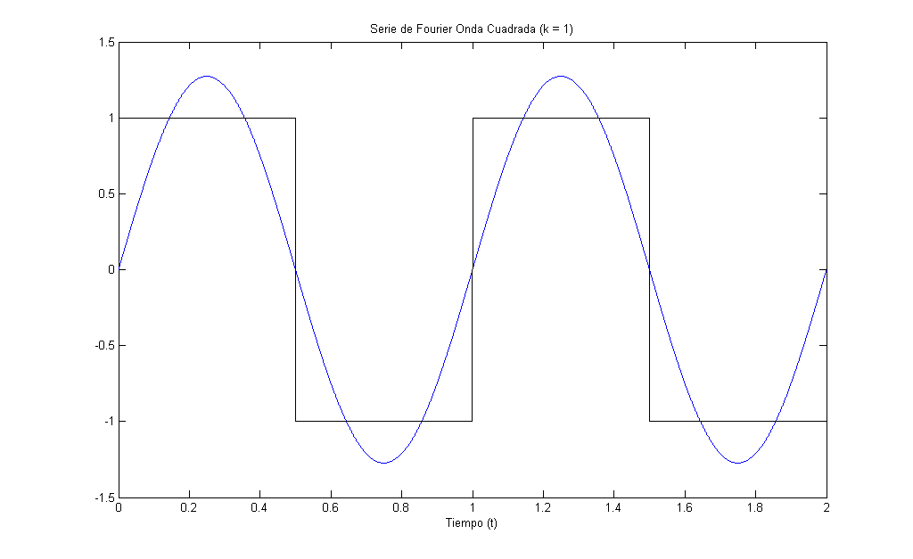 Fourier series approximation of a square wave k =1